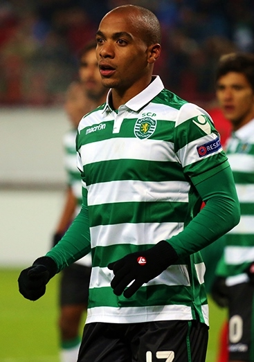 João Mário